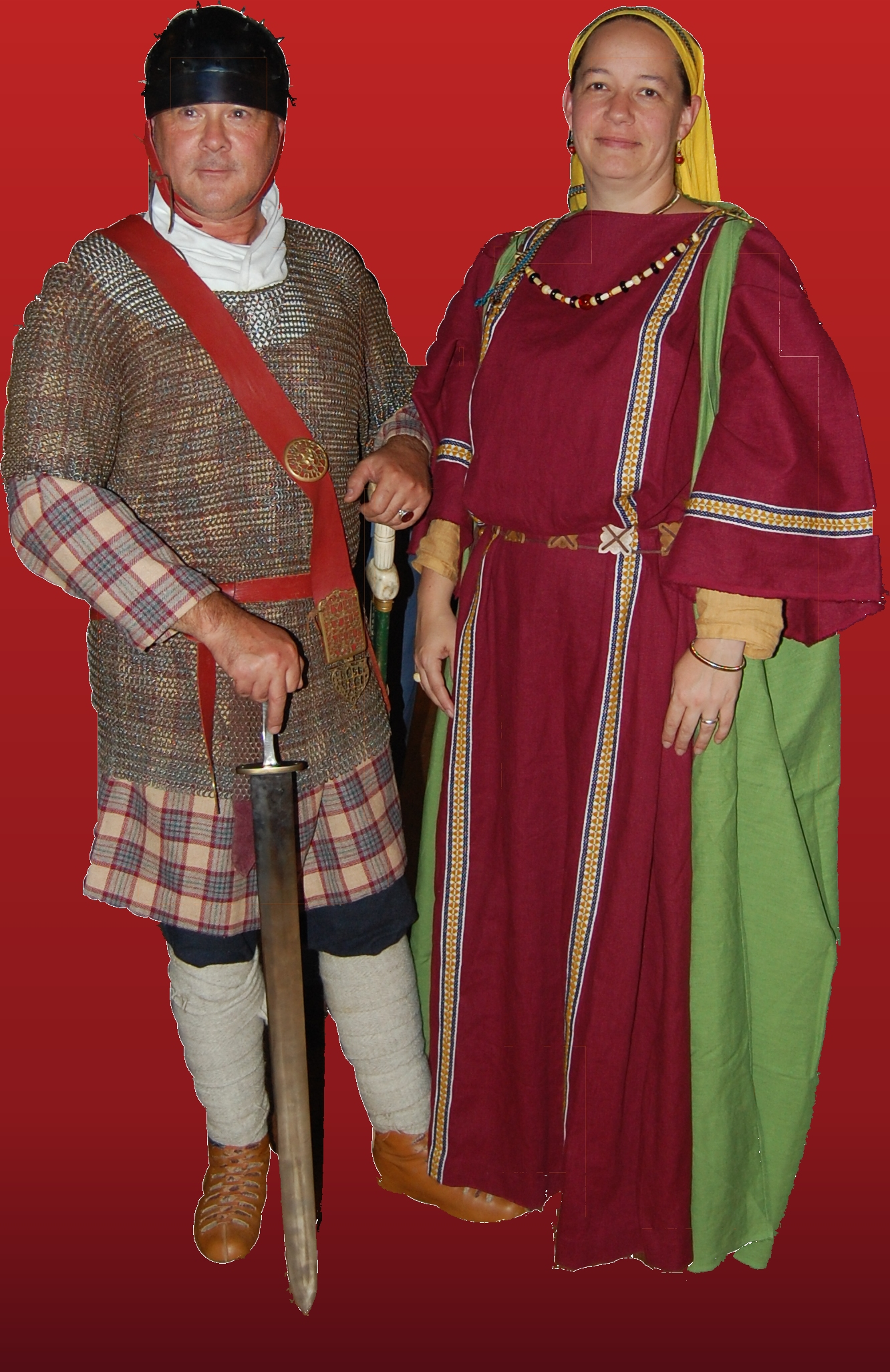 Meronvingian nobleman with spatha and his wife